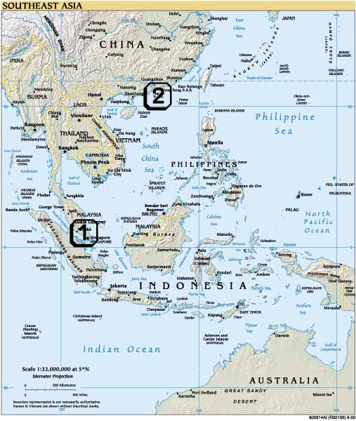 Southeast Asia Portuguese Creoles